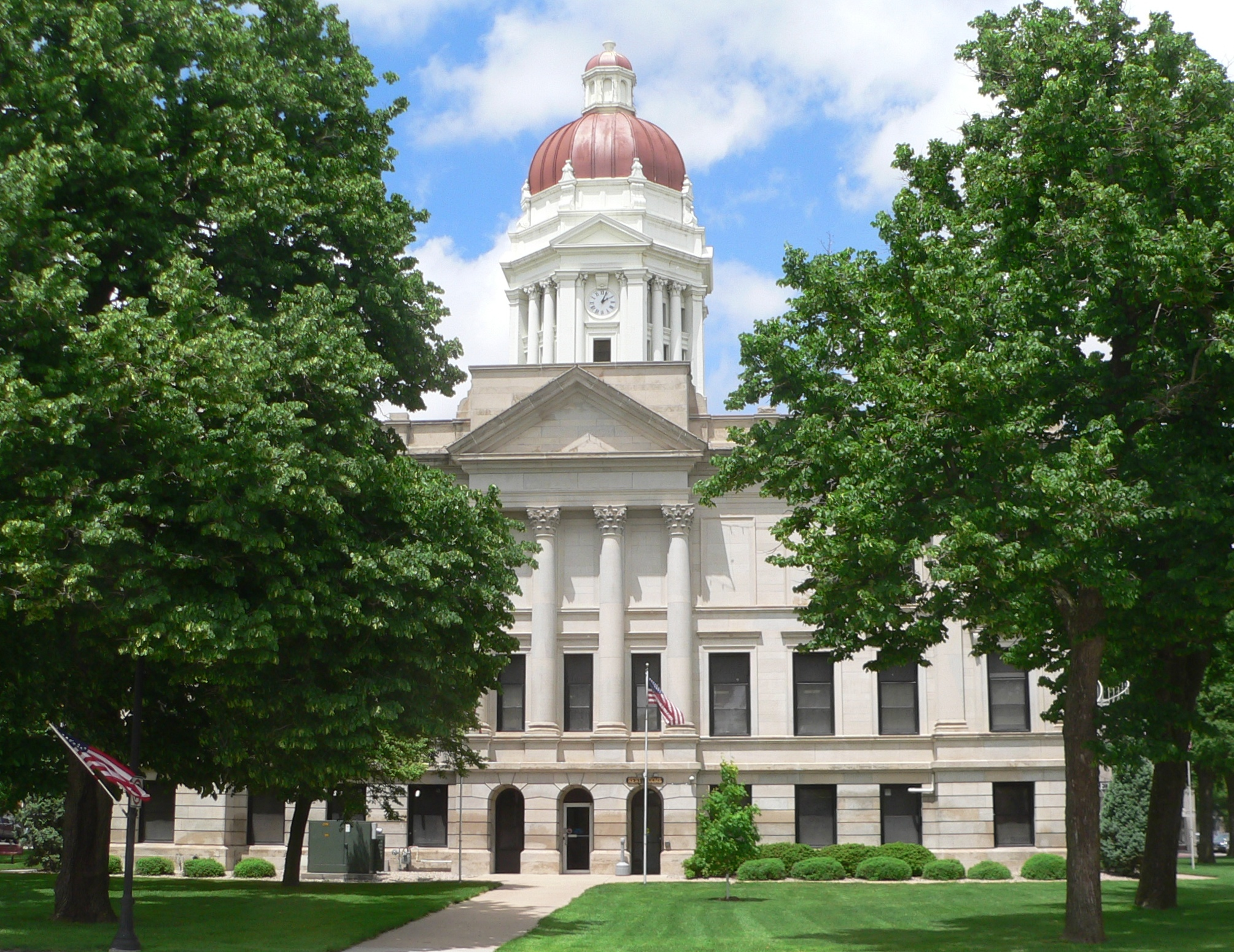 Seward County courthouse in Seward, Nebraska; seen from the south, from Main Street.